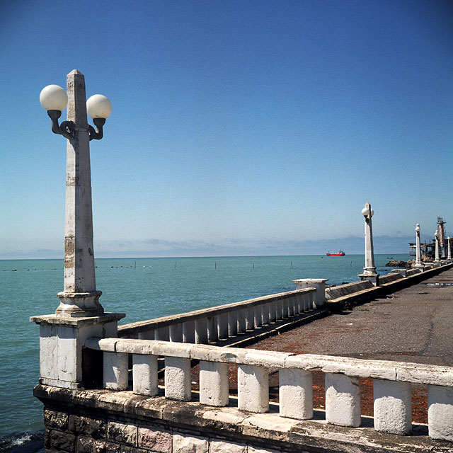 Black sea at Sukhumi